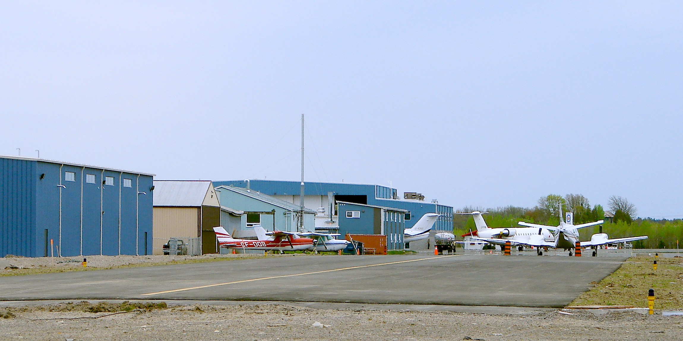 Peterborough Airport, Peterborough, Ontario, Canada